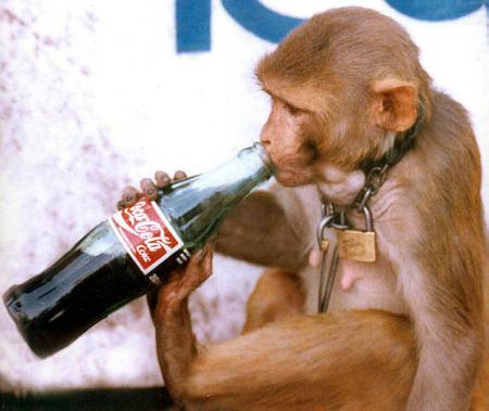 Jullunder: monkey drinking coca-cola